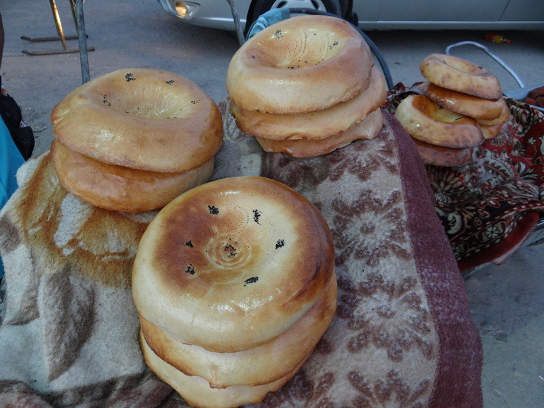 Bread "Naan" in Samarkand (Uzbekistan)